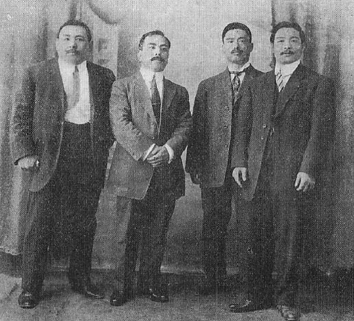 Four heavenly kings in Cuba. (From left) Shūtarō Ōno, Nobushirō Satake, Tokugorō Itō and Mitsuyo Maeda.